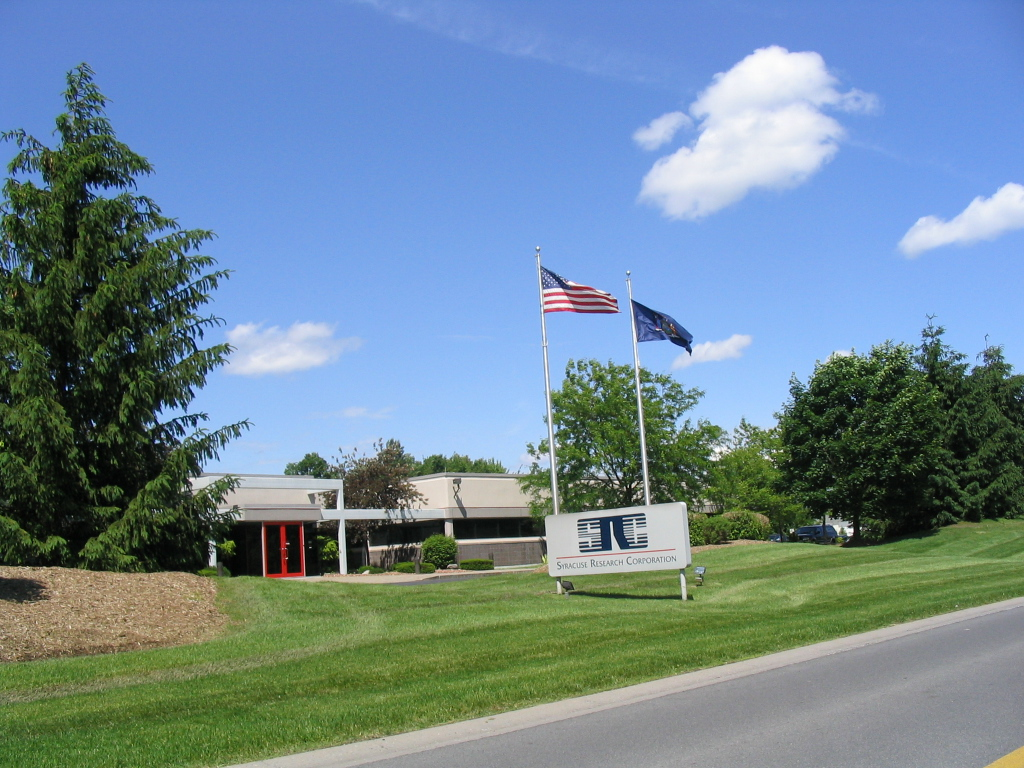 photo of Syracuse Research Corporation Headquarters in Cicero, NY, taken by me on June 3, 2004